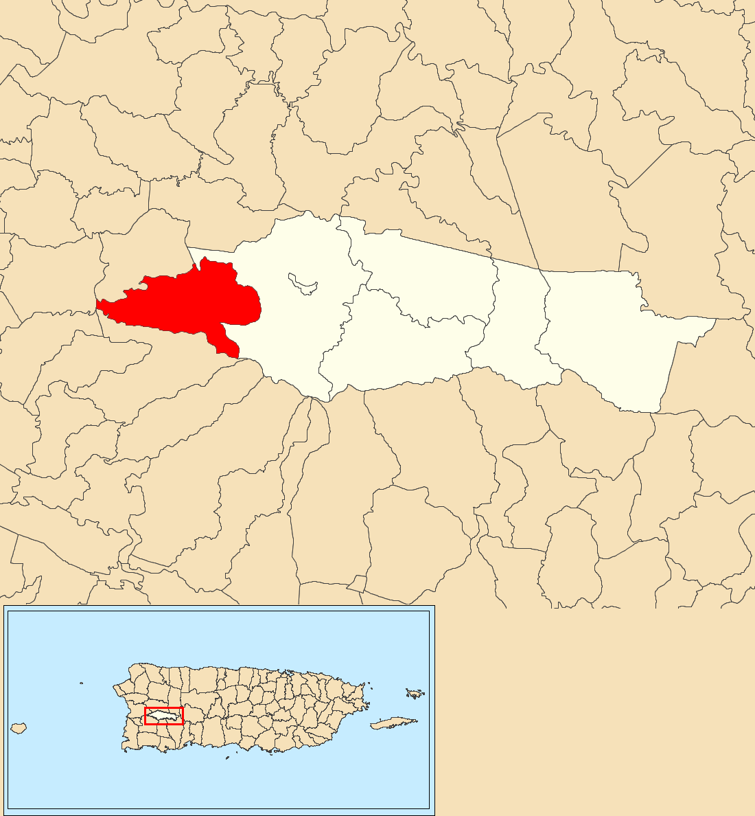 Montoso, Maricao, Puerto Rico locator map